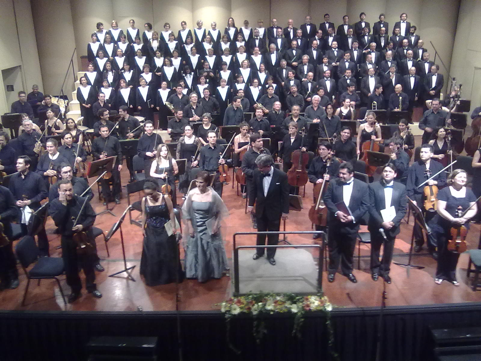 Philharmonic Orchestra of Chile, whit The Choir of the University of Chile in the celebration of it 80th anniversary.